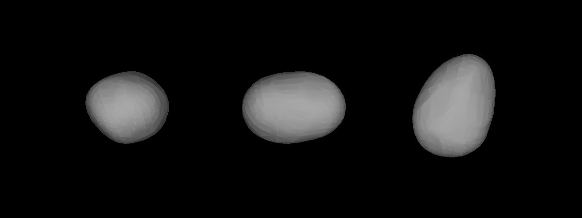 A three-dimensional model of 107 Camilla that was computed using light curve inversion techniques.